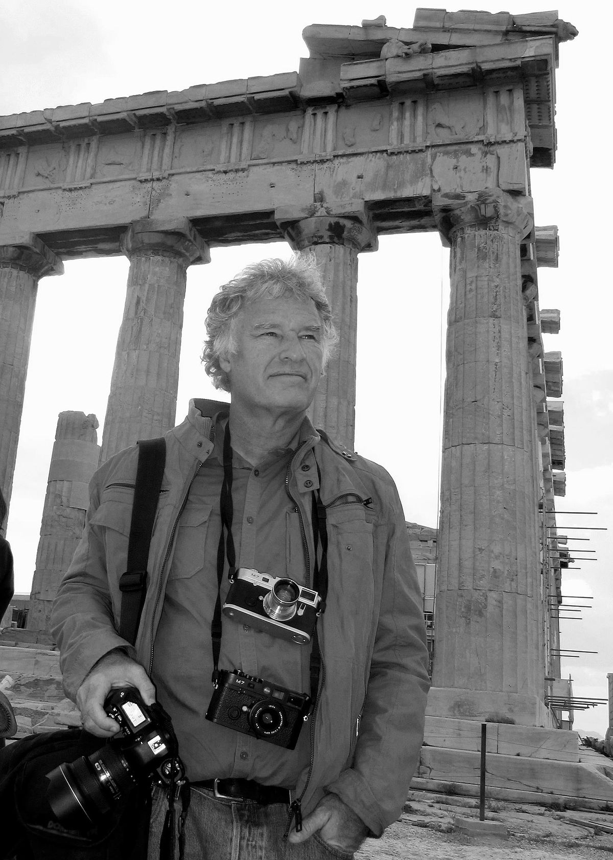 Jeff Widener in Greece, 2010Unknown